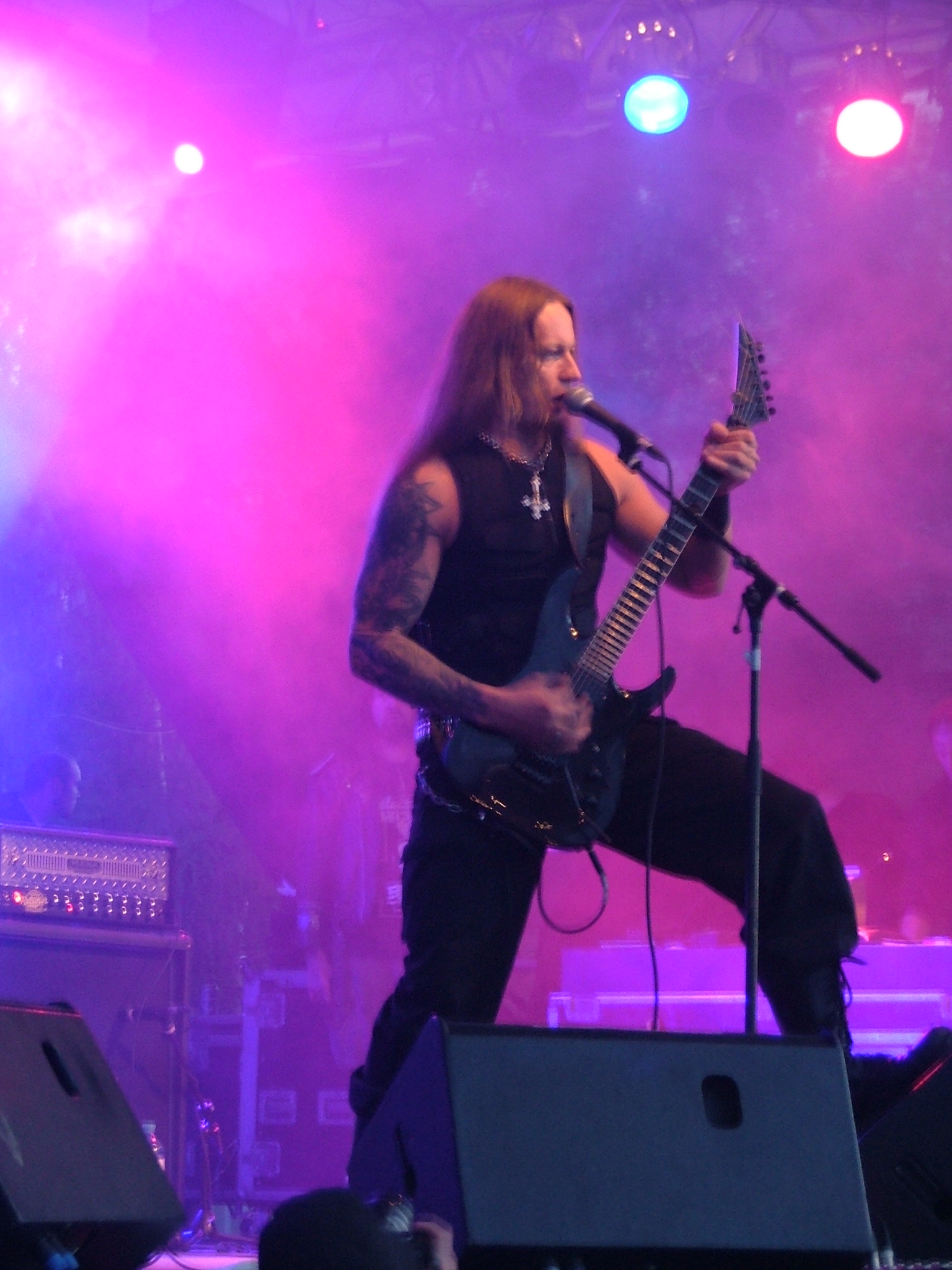 Austrian black metal band Belphegor at 'Rock the Lake' in Finkenstein am Faaker See